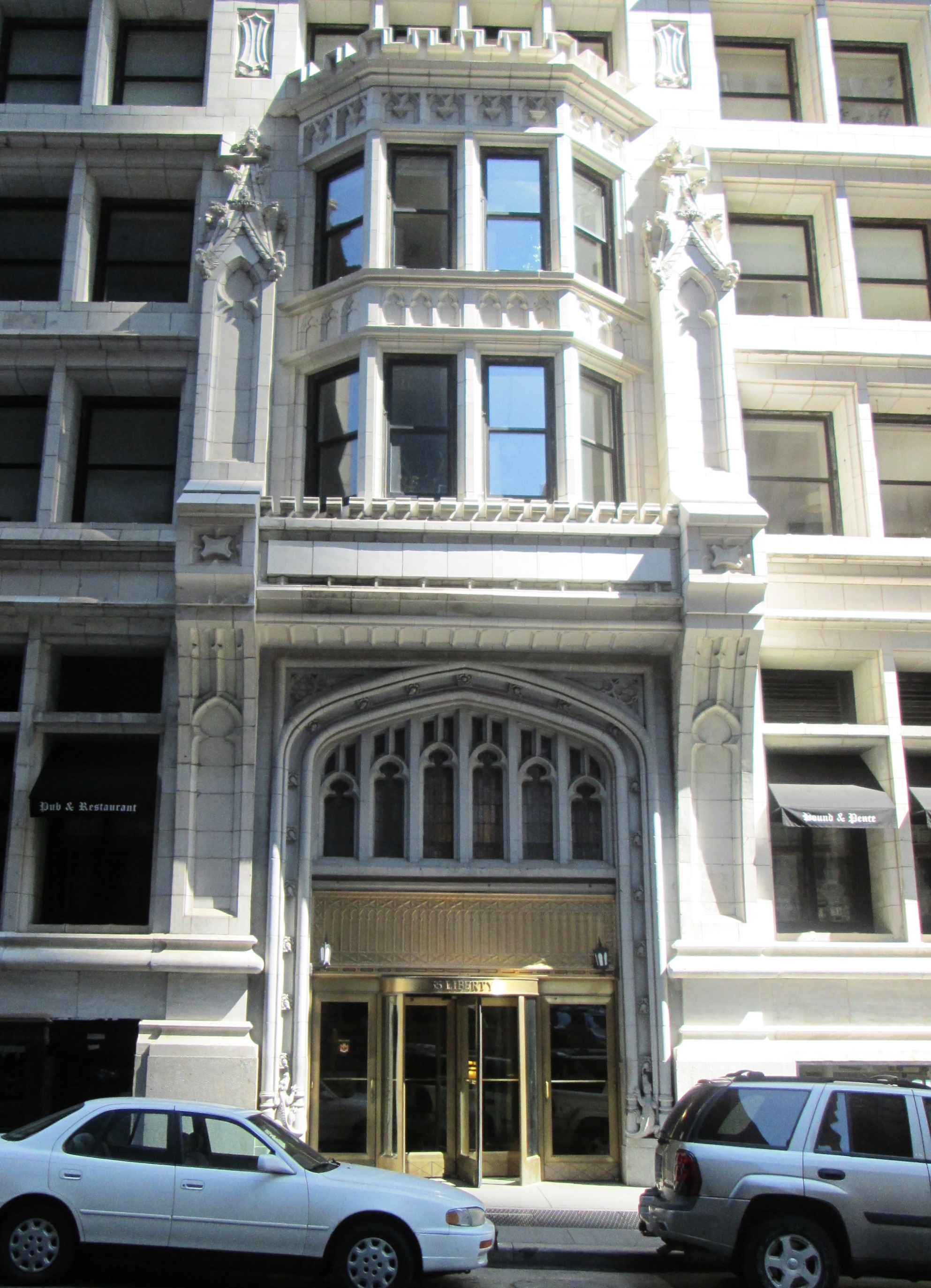 The Liberty Tower, formerly the Sinclair Oil Building, located at 55 Liberty Street at the corner of Nassau Street in the Financial District of Manhattan, New York City is a skyscraper built in 1909-10 as a commercial office building and designed by Chicago architect Henry Ives Cobb in the Gothic Revival style. In 1981 it was converted into apartments by Joseph Pell Lombardi.